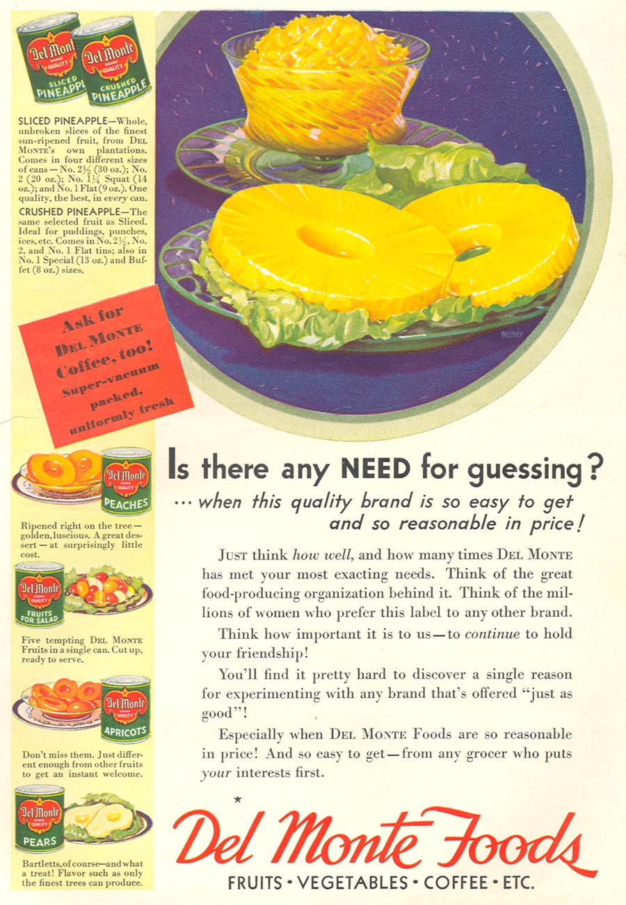 1932 advertisement for Del Monte Foods canned food products, prominently featuring pineapple. Out of the magazine Good Housekeeping.